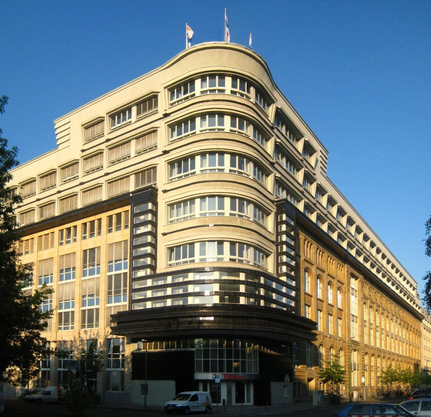 The "Mosse House" at Schützenstraße No. 18-25, corner of Jerusalemer Straße (on the left) in Berlin-Mitte. The building occupies a large part of the block on Schützenstraße between Markgrafenstraße and Jerusalemer Straße. It was built 1901 to 1903 by architects Wilhelm Cremer and Richard Wolffenstein for publisher Rudolf Mosse. It was altered in the 1920s by Erich Mendelsohn who famously designed the curved corner. This is the only surviving example of the pre-war publishing and newspaper buildings in this quarter of the city. The building was heavily damaged in WWII and its contemporary outlook is the result of a reconstruction undertaken in the 1990s. The wing along Schützenstraße is the only originally preserved part of the complex. Parts of the building are integrated into the "Mosse Center", the seat of numerous media firms. The corner segment is the seat of the German branch of the French mineral oil company Total. The building complex has been designated a historic landmark.